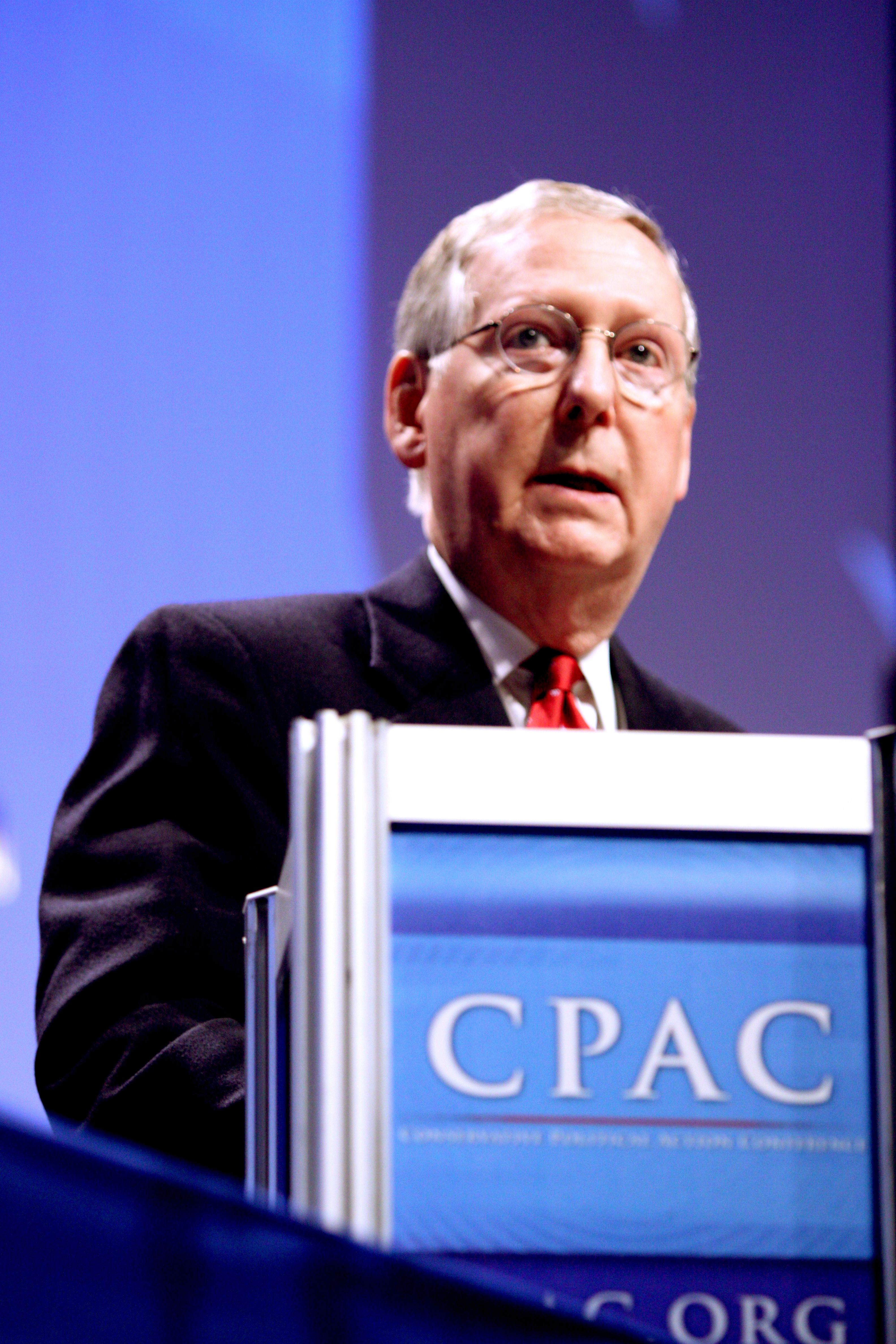 United States Senator and Senate Minority Leader Mitch McConnell of Kentucky speaking at CPAC 2011 in Washington, D.C.